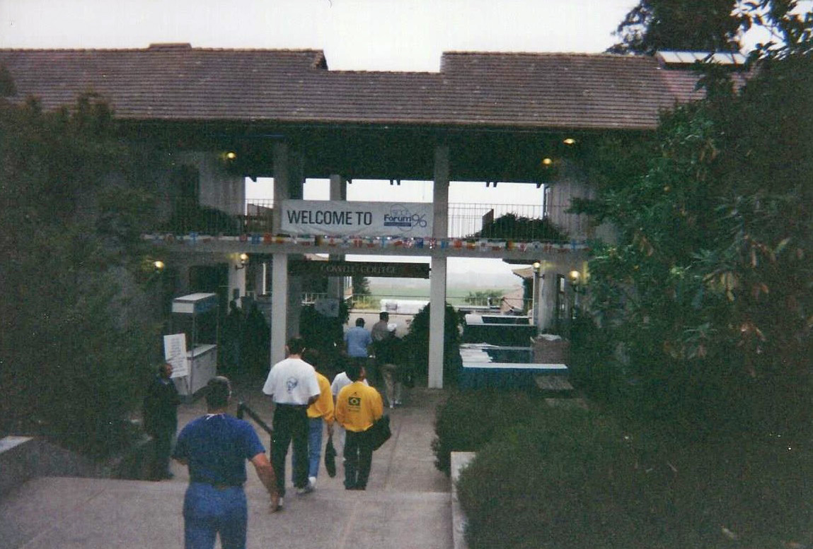 The welcome sign to, and registration areas for, the SCO Forum96 computer conference, as seen on an early Monday morning before the keynote addresses at the entrance to Cowell College on the campus of the University of California, Santa Cruz. East Field is visible behind the college.